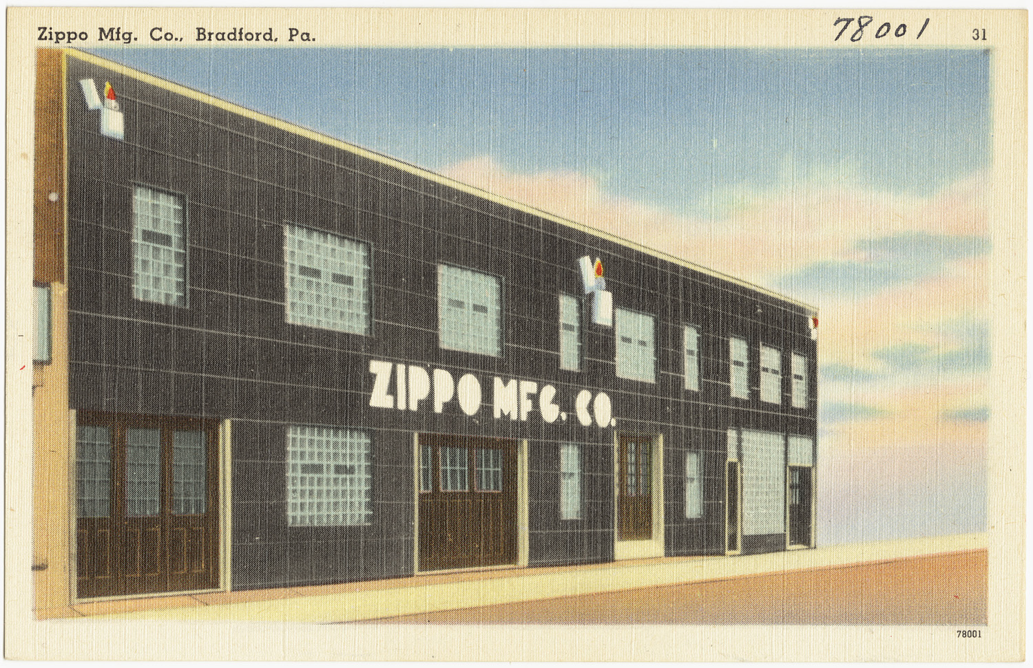 File name: 06_10_017249 Title: Zippo Mfg. Co., Bradford, Pa. Created/Published: Pub. by John B. Cliff, Kane PA.Jobber - Bradford News Co., Bradford, PA. Tichnor Bros. Inc., Boston, Mass. Date issued: 1930 - 1945 (approximate) Physical description: 1 print (postcard) : linen texture, color ; 3 1/2 x 5 1/2 in. Genre: Postcards Subjects: Industrial facilities Notes: Collection: The Tichnor Brothers Collection Location: Boston Public Library, Print Department Rights: No known restrictions